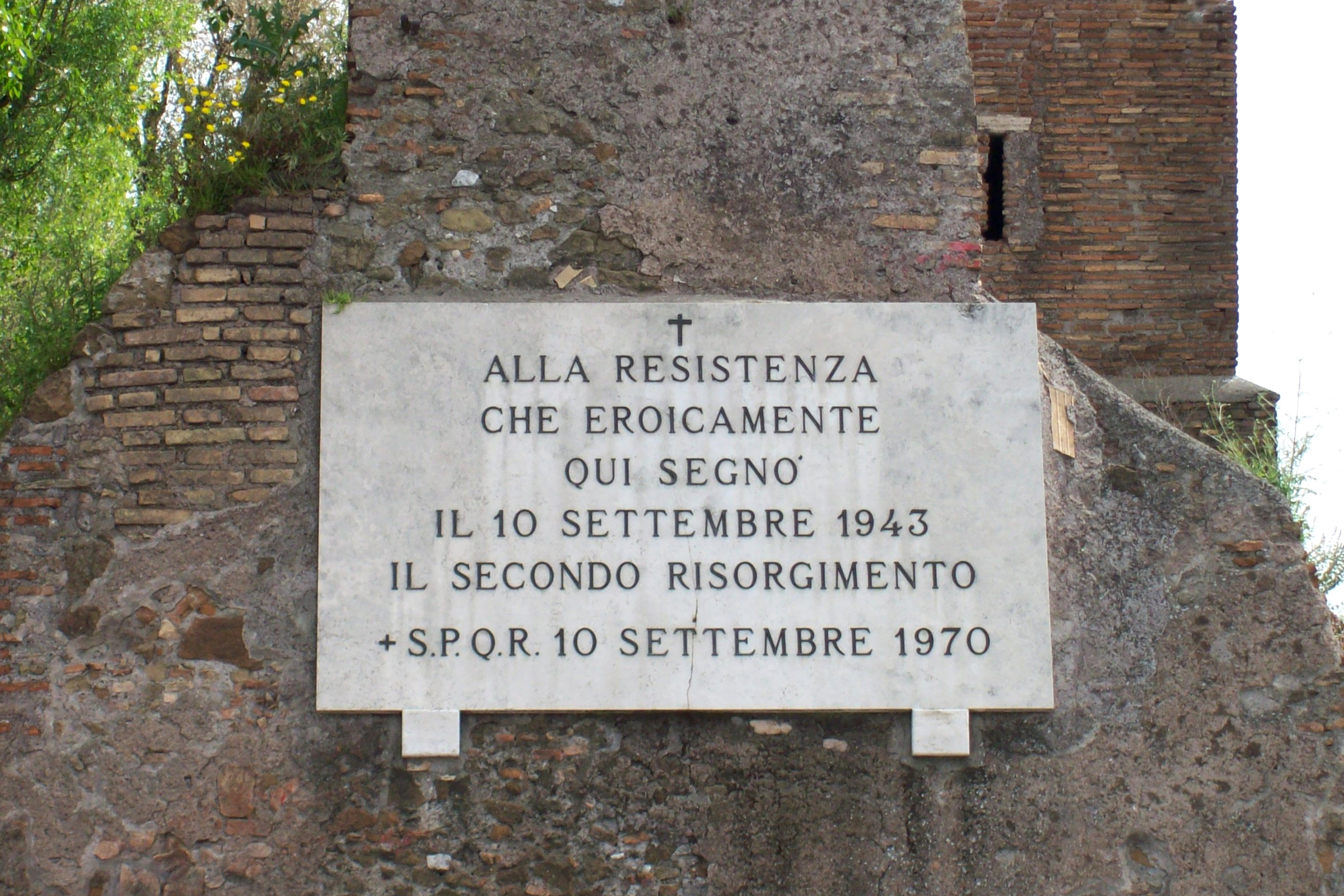 Plaque commemorating the Battle of Porta san Paolo in Rome (10 September 1943) in which Italian troops with the help of civilians attempted to prevent Nazi Germans from seizing the city. It was the first stage of the Italian Resistance against Germany. The photo was taken on 25 April 2013, 68th anniversary of the Liberation of Italy